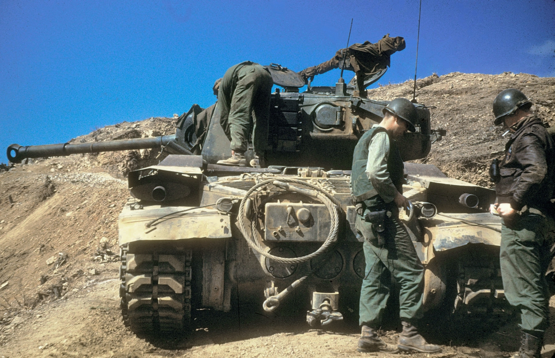 A United States Air Force ground forward air controller (right) conferring with the tank commander of a United States Army M46 Patton tank during the Korean War.